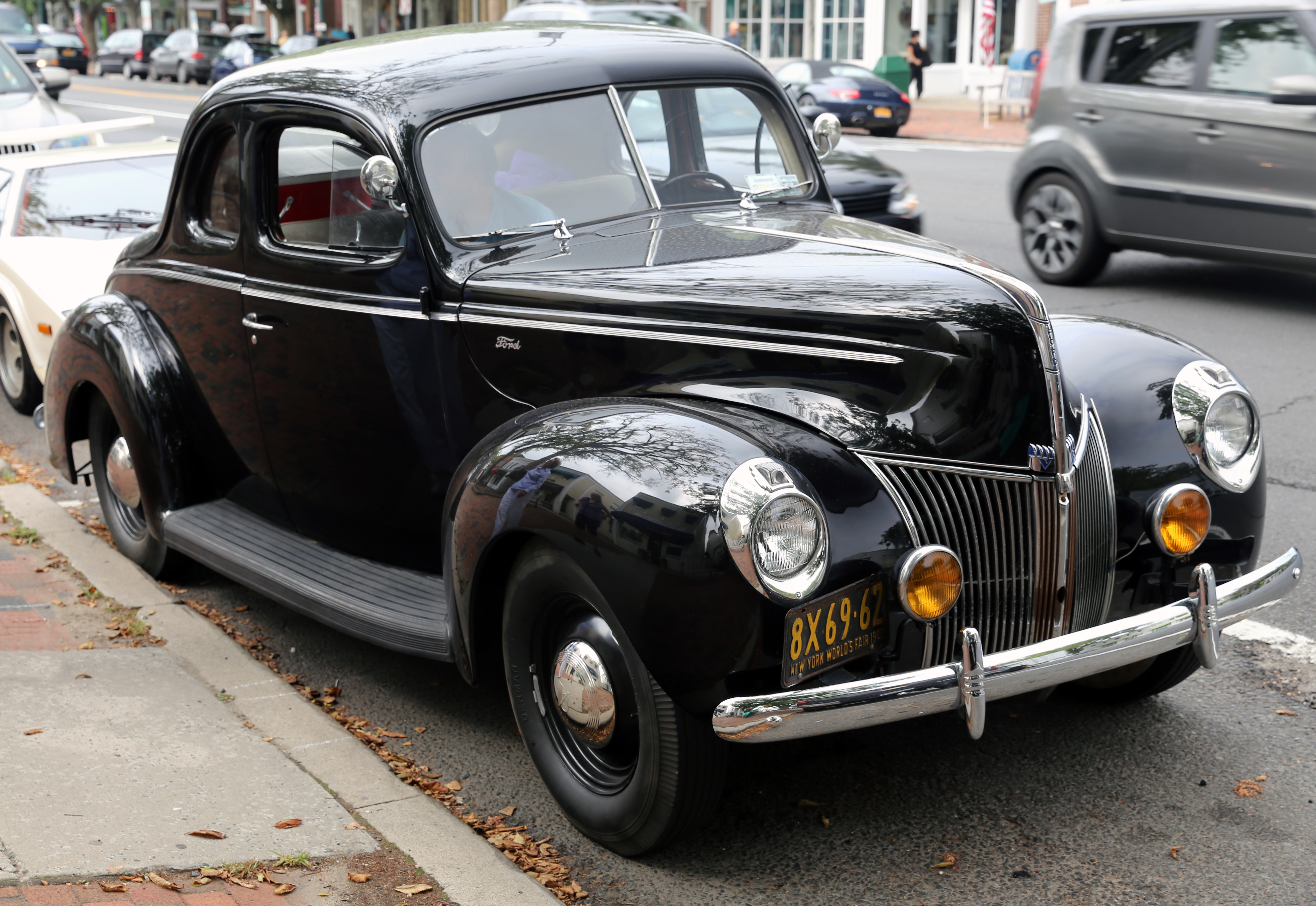 A 1940 Ford Standard Business Coupé. Serie 01A, 85hp model, body 67A. Vintage 1940 license plates; they have been altered so as to anonymize them.